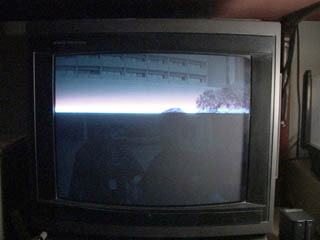 This shows a television scan beam as it refreshes the screen. 1/3000 second exposure. I am the creator of this image, including the image displayed on the TV.